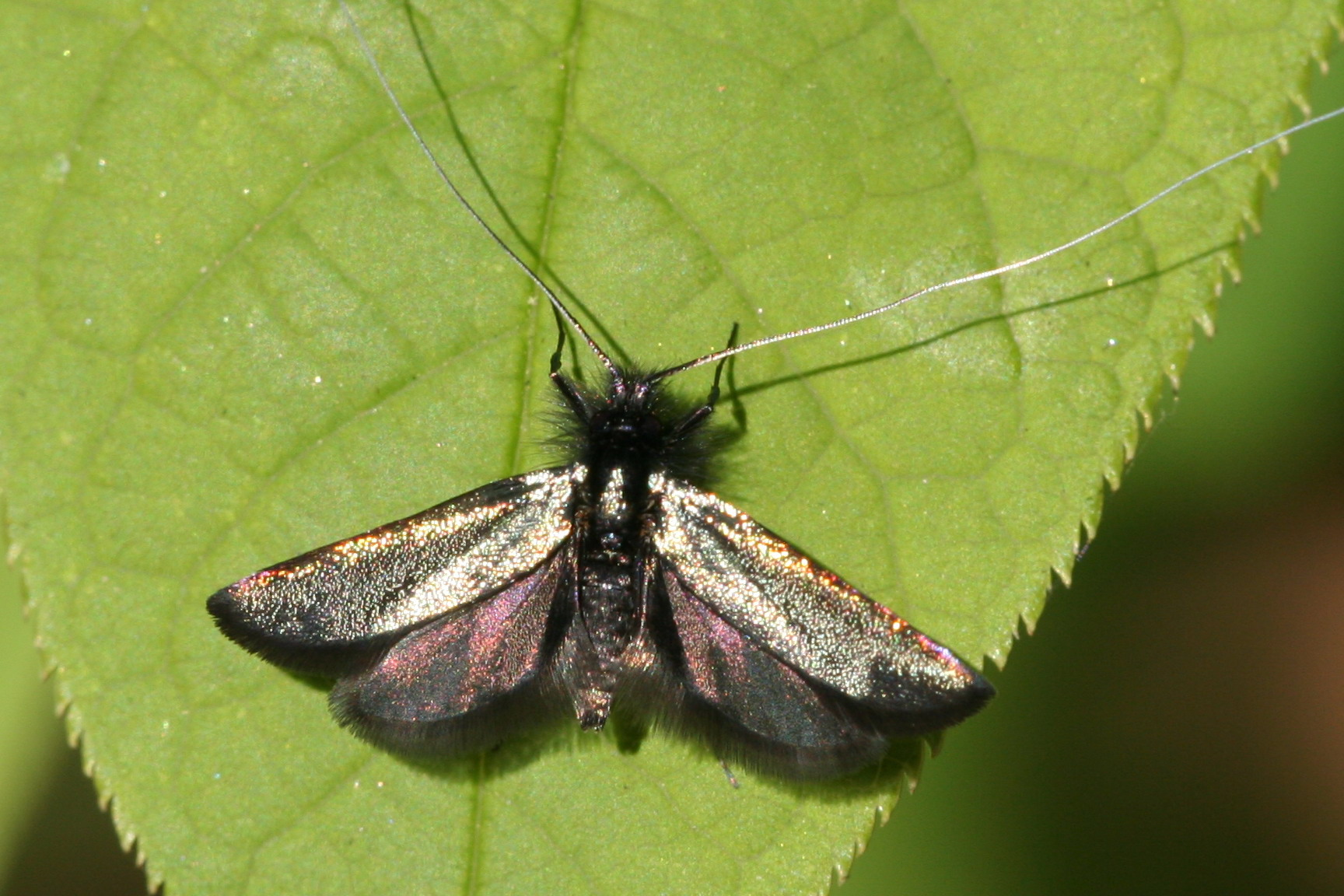 Adela reaumurella 21 april 2007 IJmuiden, the Netherlands